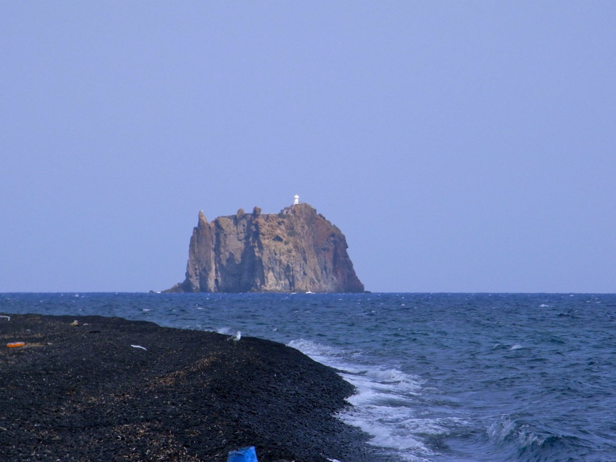 The small sea stack Strombolicchio